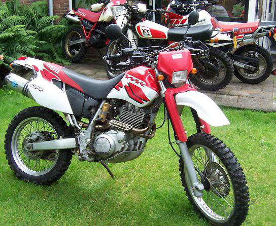 Belgarda TTR600 TT600R offroad motorcycle dirtbike